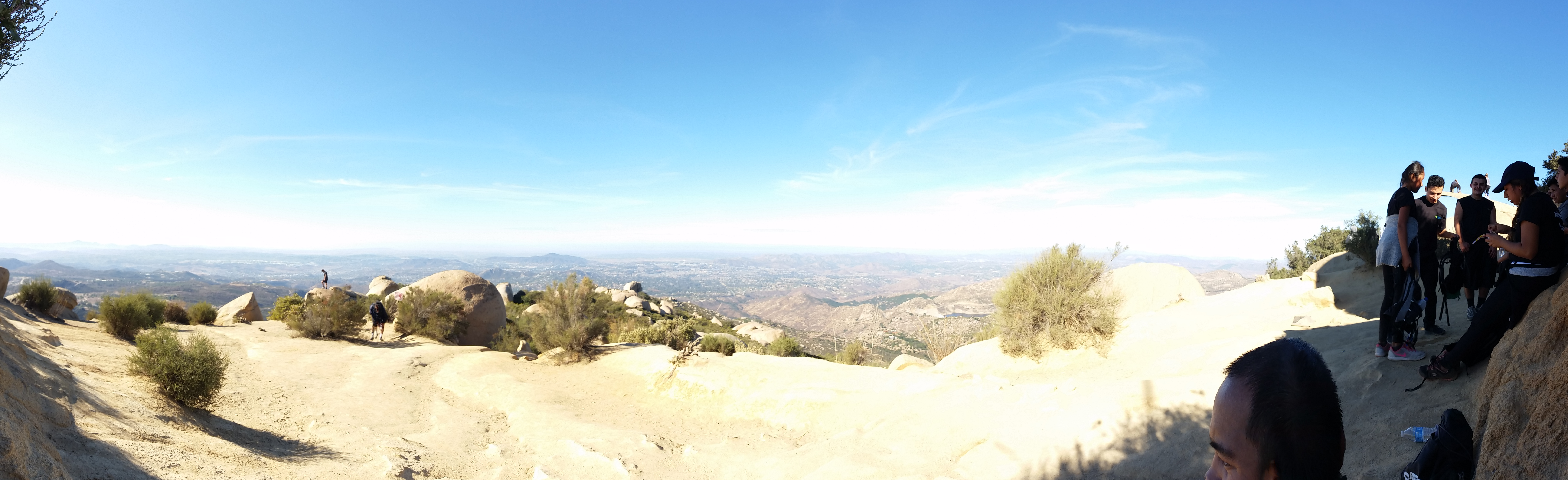 Panorama of the skyline west of Potato Chip Rock